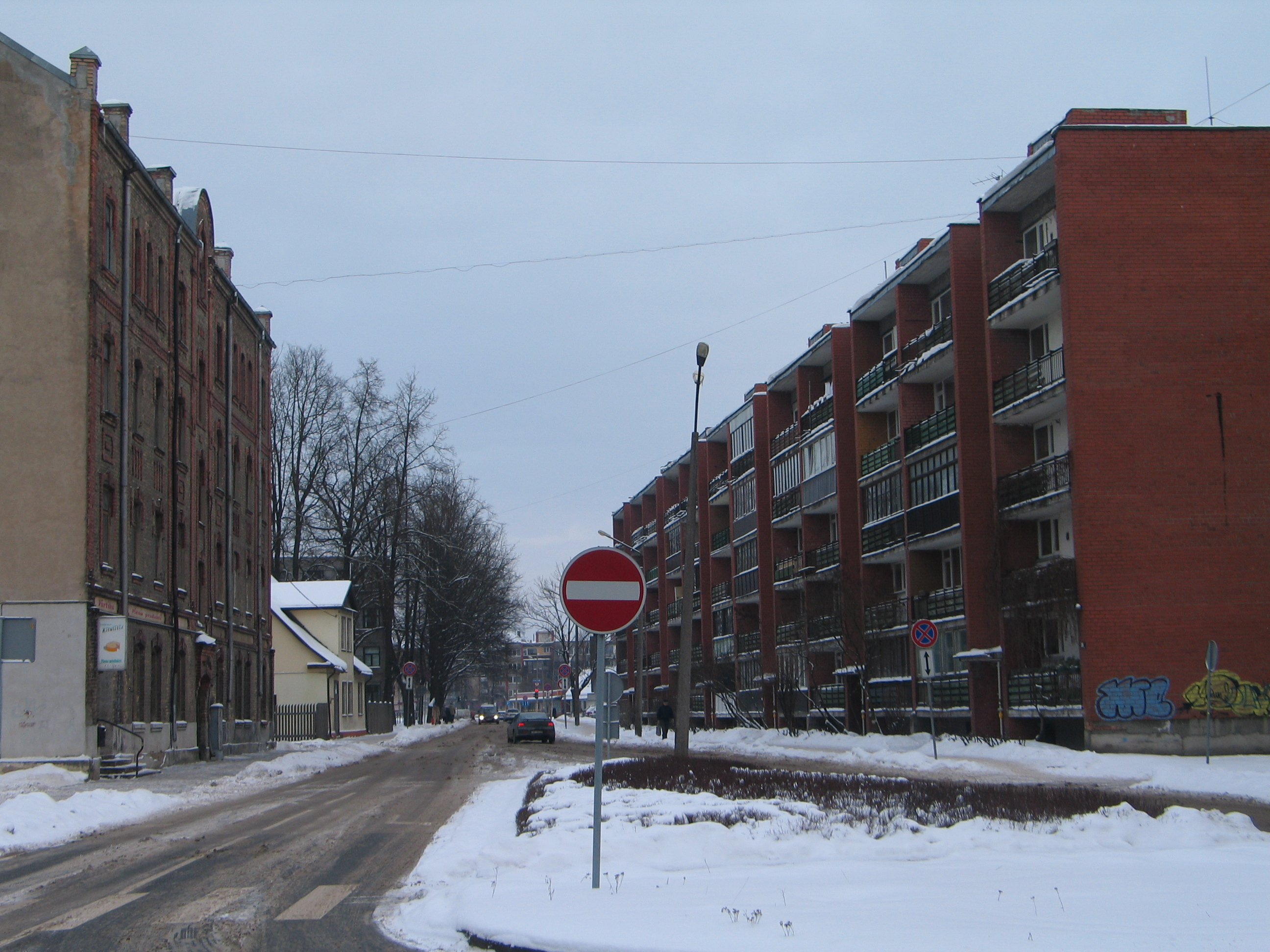 Sudraba Edžus Street in Jelgava